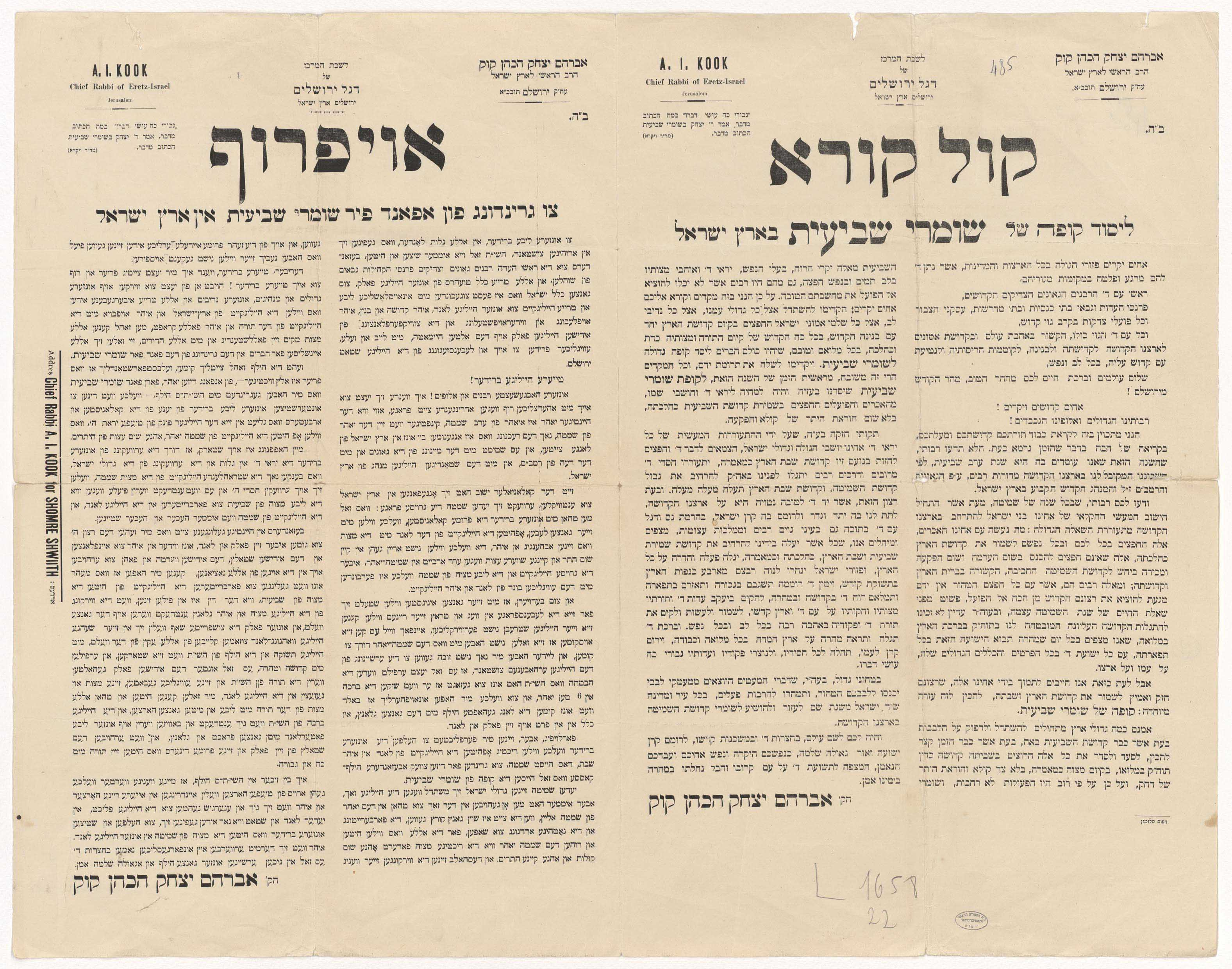 Rav Kook Letter Regarding Shemitah Observance